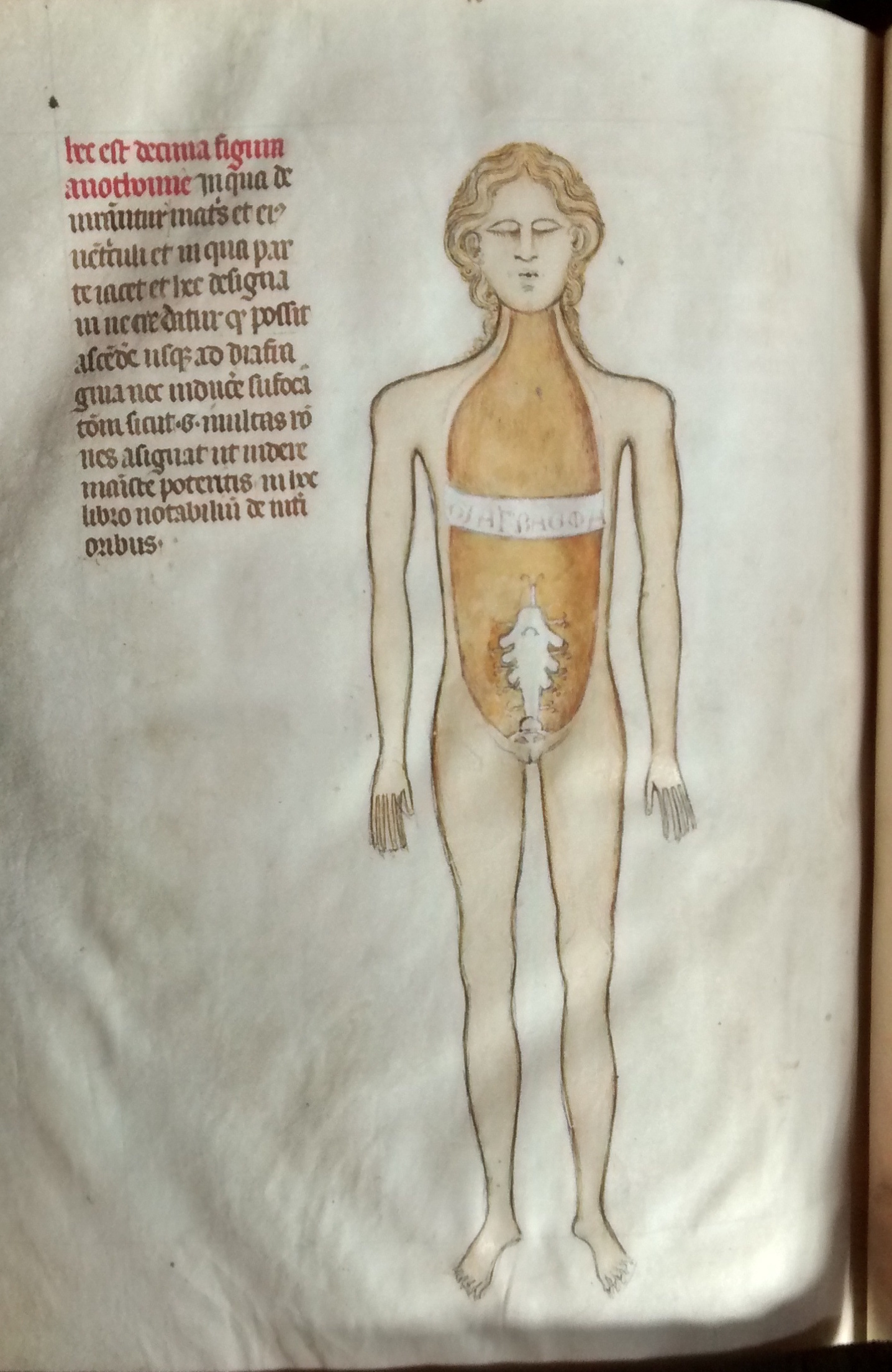 From the Anathomia Philippi Septimi. Chantilly, Musée Condé Ms. 334, fol. 281v.